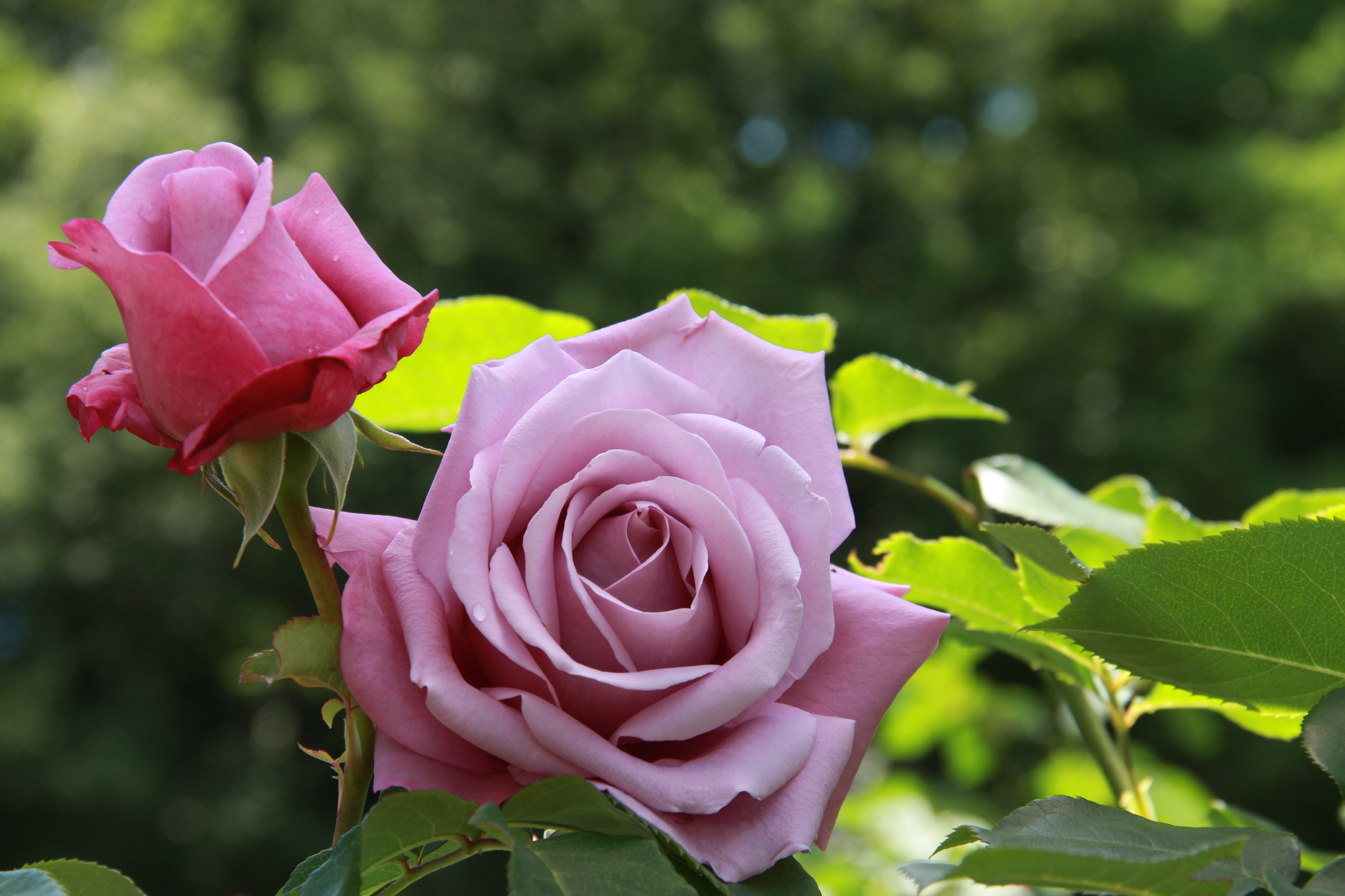 Rosa 'Charles de Gaulle'